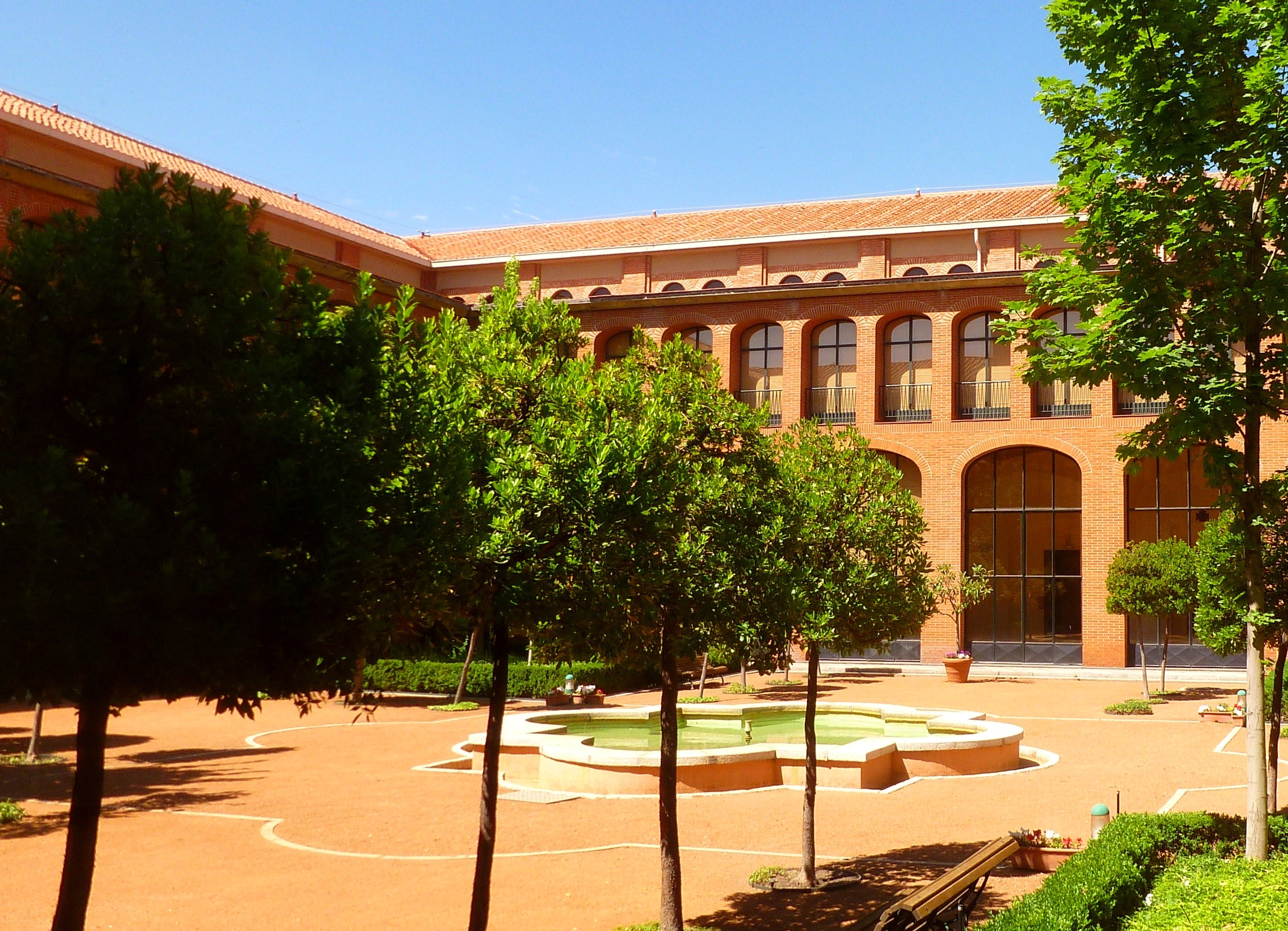 Cloister of the Museum of the Americas, Madrid, Spain.